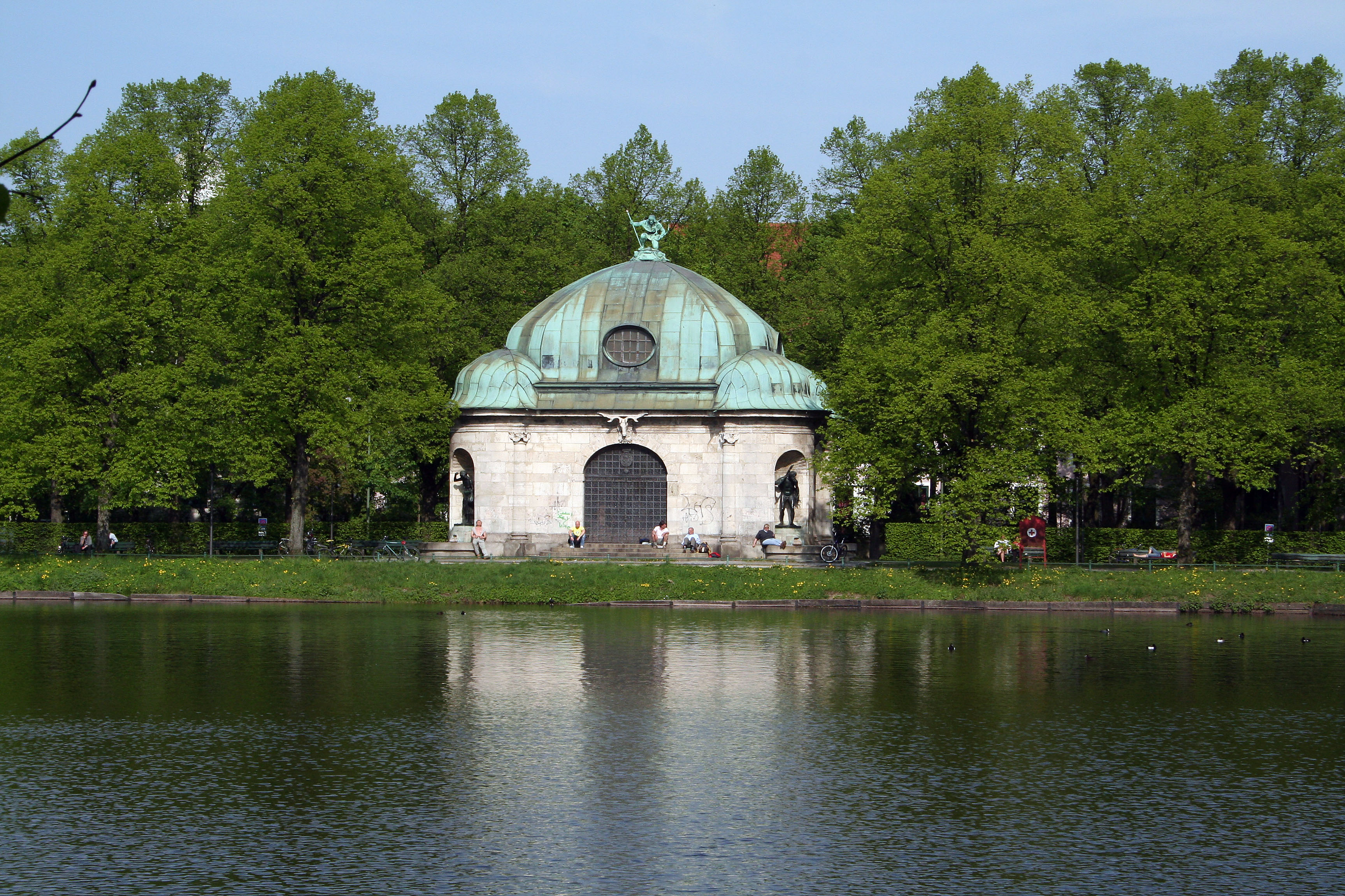 Hubertusbrunnen, Munich